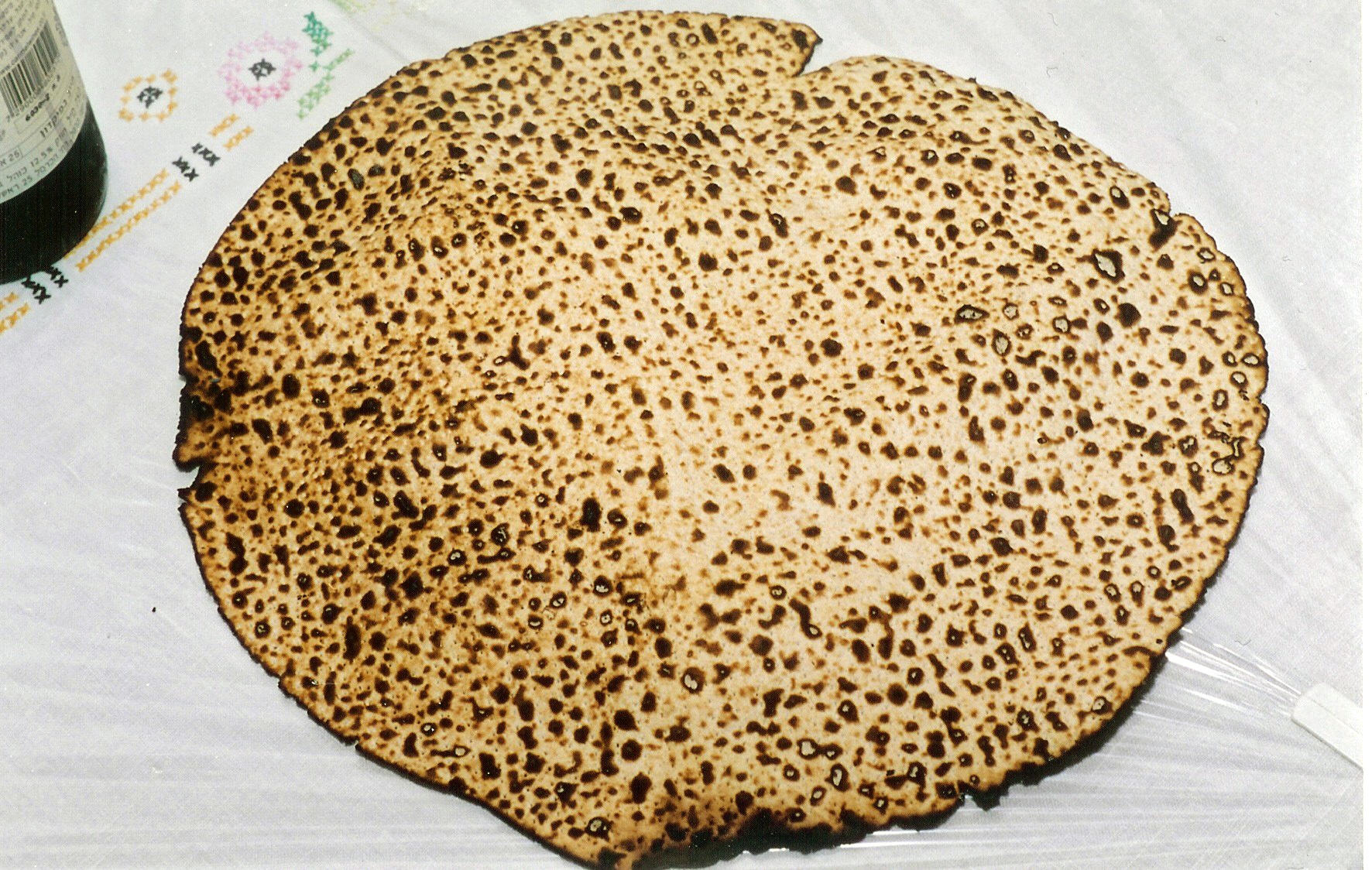 Photo of handmade Shmura Matzo used at Passover seder. Photo taken on April 12 2006 by Yoninah.